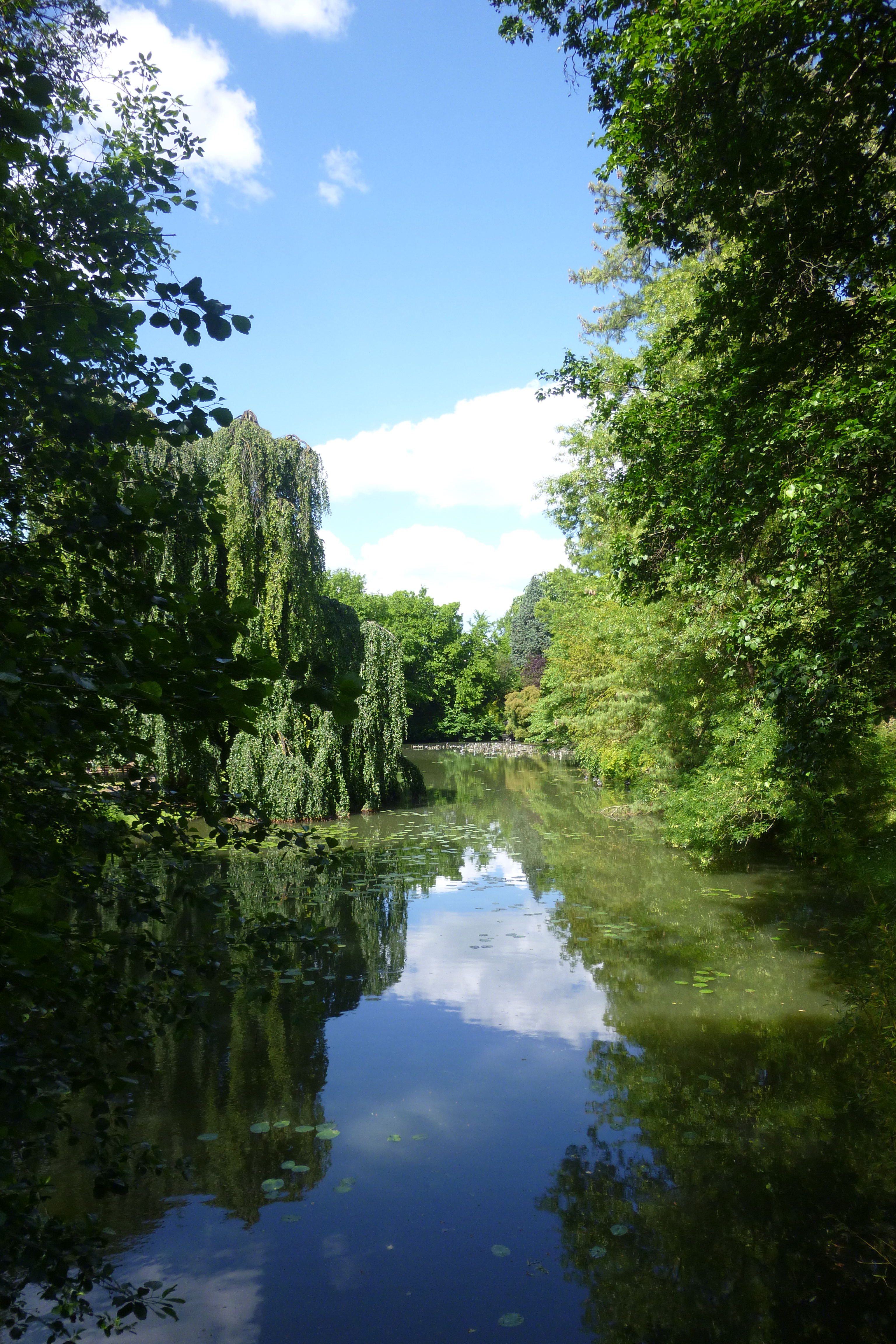 Swans lake in Metz, Lorraine (France).